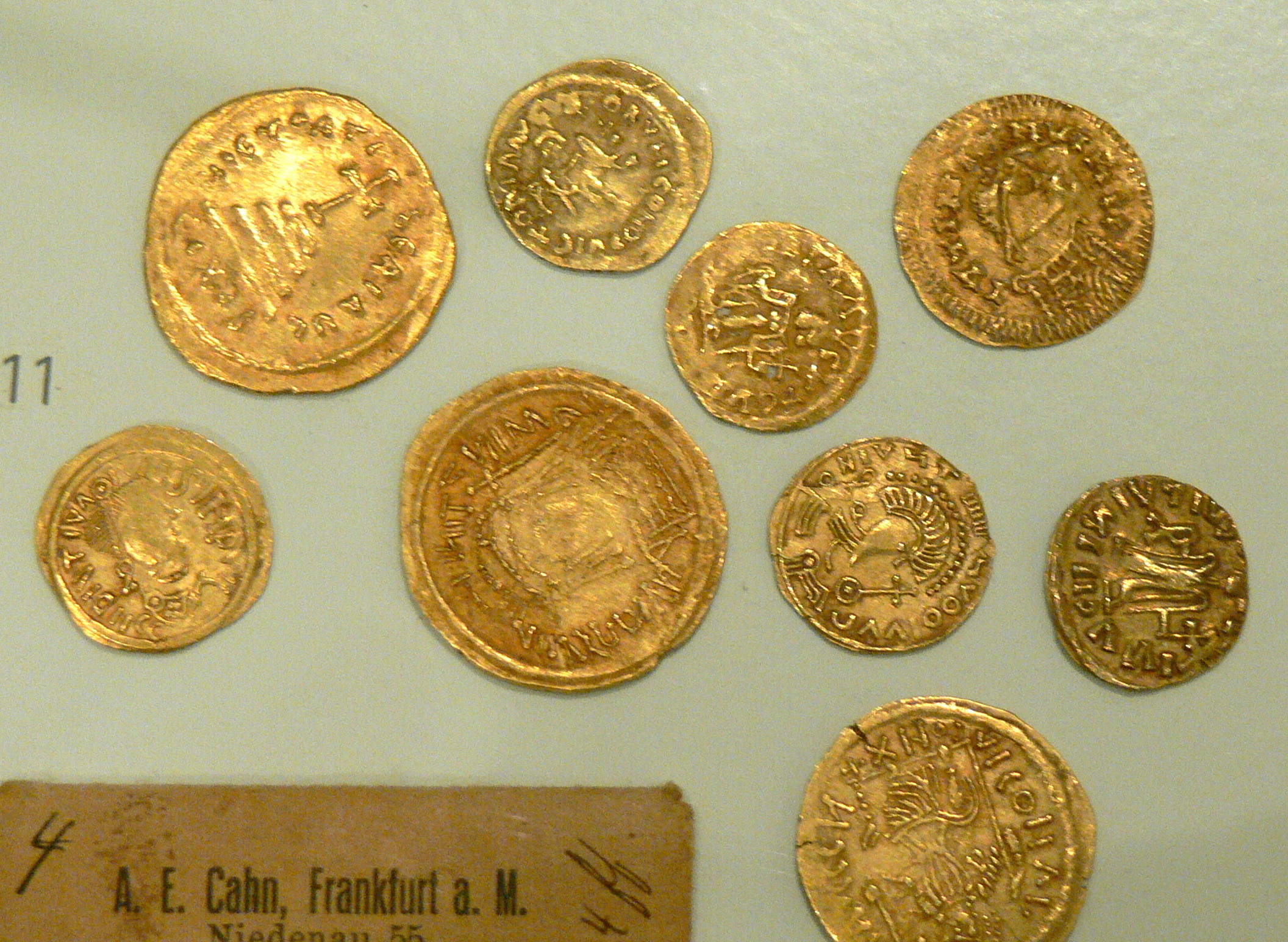 Archaeological museum Gunzenhausen ( Bavaria ). Merovingian imitations of byzantine golden coins.